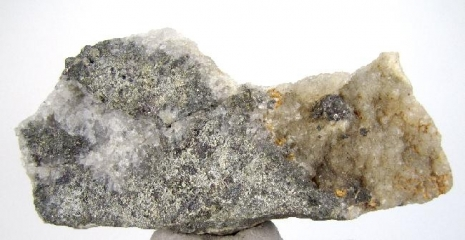 Coloradoite, Pyrite, Quartz Locality: Bessie G Mine, La Plata District (California District), La Plata County, Colorado, USA (Locality at ) Size: 10.1 x 4.7 x 2.8 cm Coloradoite is a rare mercury telluride named for the type localities which are in Colorado. It is found in hydrothermal, tellurium bearing precious metal veins. Crystals and platelets of grayish-black coloradoite, accented with brassy, microcrystalline pyrite richly cover the sculptural vein matrix of quartz. Very seldom will you see a coloradoite specimen in cabinet size quality and richness.